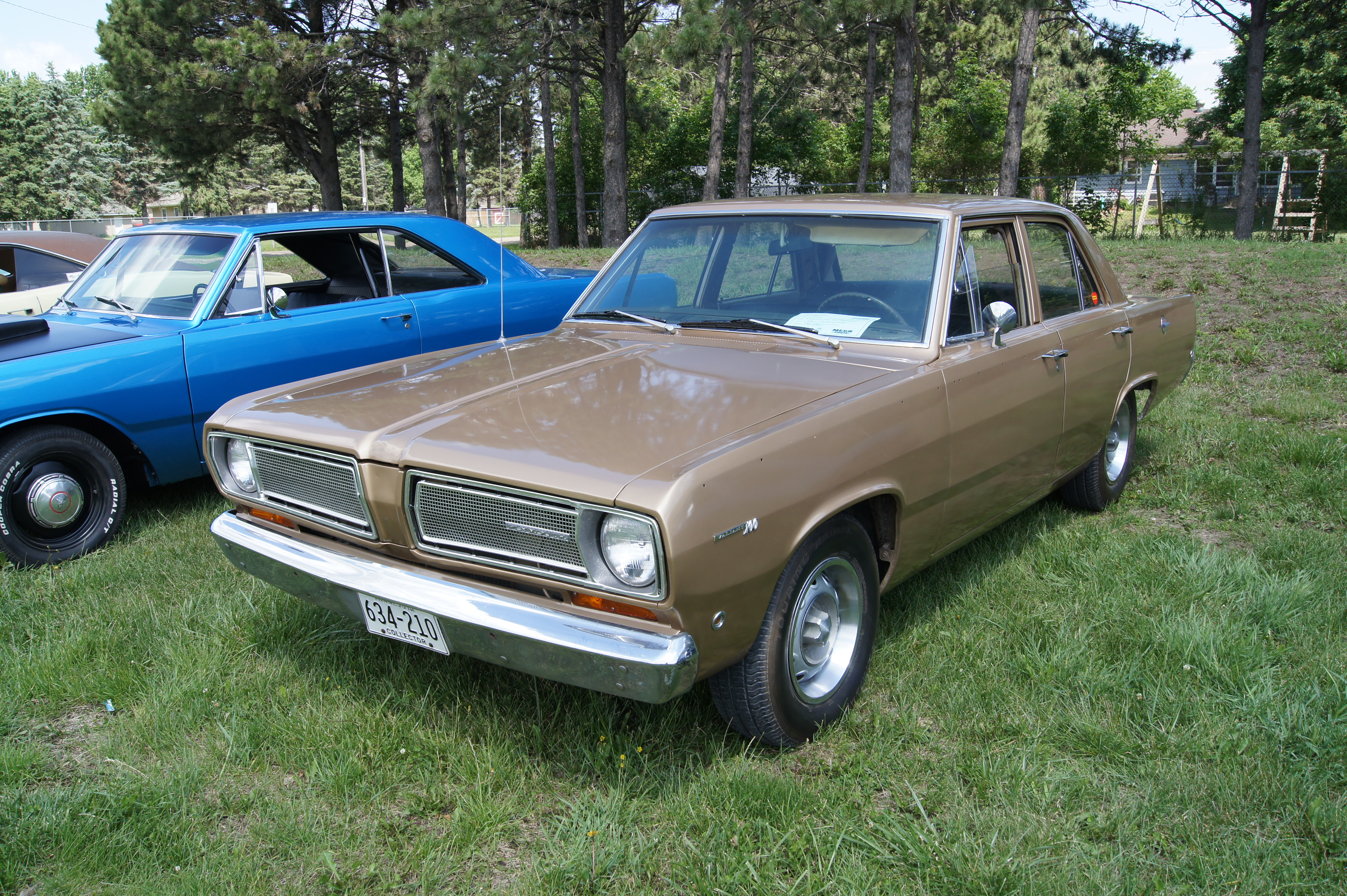 28th Annual Midwest Mopars in the Park June 2, 2012